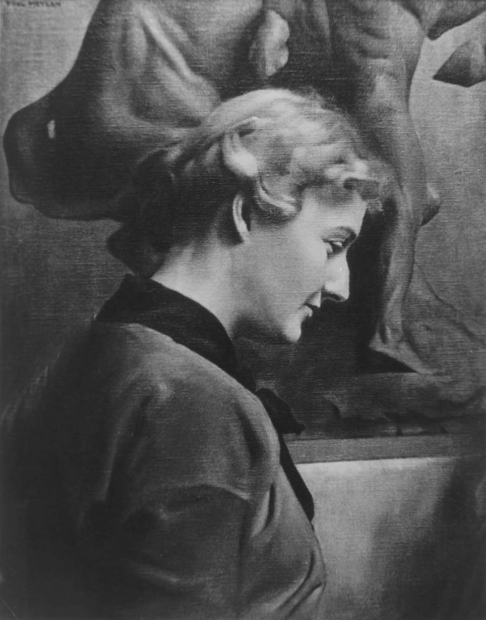 Description Anna Vaughn Hyatt Huntington established and designed the country's first outdoor sculpture museum called Brookgreen Gardens near her residence , Atalaya Castle, in South Carolina. She became one of America's foremost animal sculptors and was best known for her wild and domestic animals as well as heroic monuments. Creator/Photographer: Peter A. Juley & Son Medium: Black and white photographic print Dimensions: 8 in x 10 in Culture: American Persistent URL: [1] Repository: Archives of American Art Native nameArchives of American ArtParent institutionSmithsonian InstitutionLocationWashington, D.C.Coordinates38° 53′ 52.44″ N, 77° 01′ 21.72″ W Established1954Web page control : Q2860568 VIAF: 151134814 ISNI: 0000 0004 5897 2996 LCCN: n79065944 NLA: 35007823 GND: 1023549-8 WorldCat institution QS:P195,Q2860568 Collection: Peter A. Juley & Son Collection - The Peter A. Juley & Son Collection is comprised of 127,000 black-and-white photographic negatives documenting the works of more than 11,000 American artists. Throughout its long history, from 1896 to 1975, the Juley firm served as the largest and most respected fine arts photography firm in New York. The Juley Collection, acquired by the Smithsonian American Art Museum in 1975, constitutes a unique visual record of American art sometimes providing the only photographic documentation of altered, damaged, or lost works. Included in the collection are over 4,700 photographic portraits of artists. Accession number: J0001729